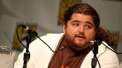 Jorge Garcia on the Lost panel at Wikipedia:Comic-Con International in San Diego, California